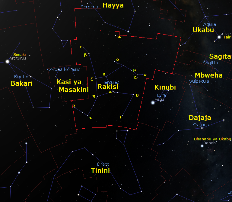 Constellation Hercules as seen from Tanzania, Swahili labelled Kiswahili: Kiswahili: Kundinyota Rakisi (Hercules) jinsi inavyoonekana kutoka Tanzania, majina kwa Kiswahili